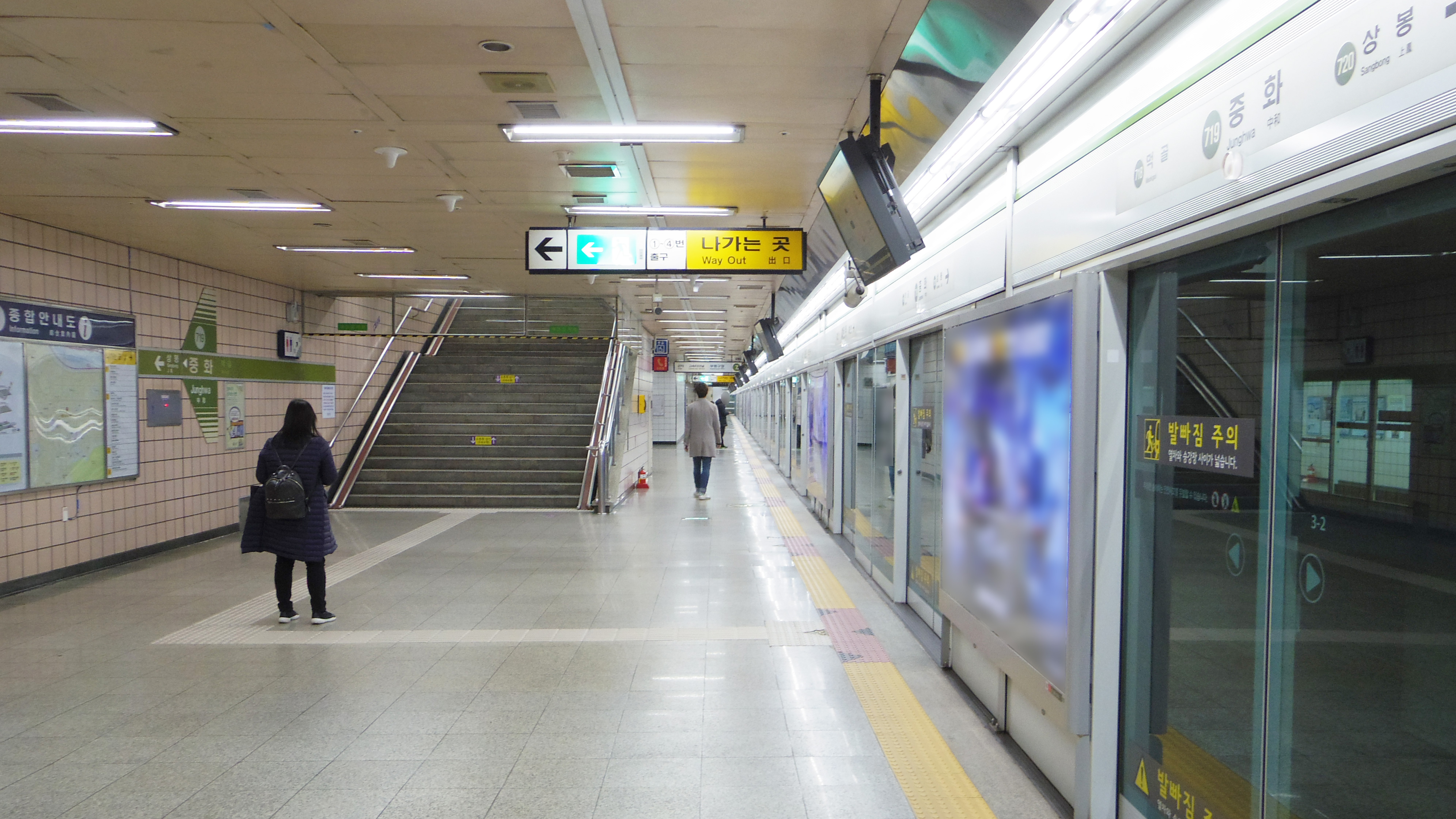 The platform at Junghwa Station on Seoul Subway Line 7 in Jungnang-gu, Seoul, Republic of Korea(South Korea)